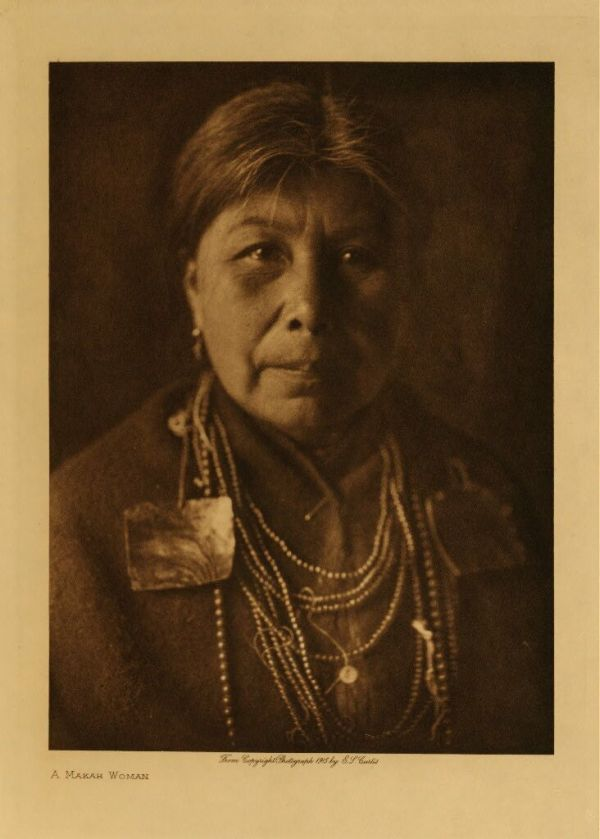 A Makah woman, circa 1900. The Makah tribe lives in and around the town of Neah Bay, Washington, a small fishing village along the Strait of Juan de Fuca.